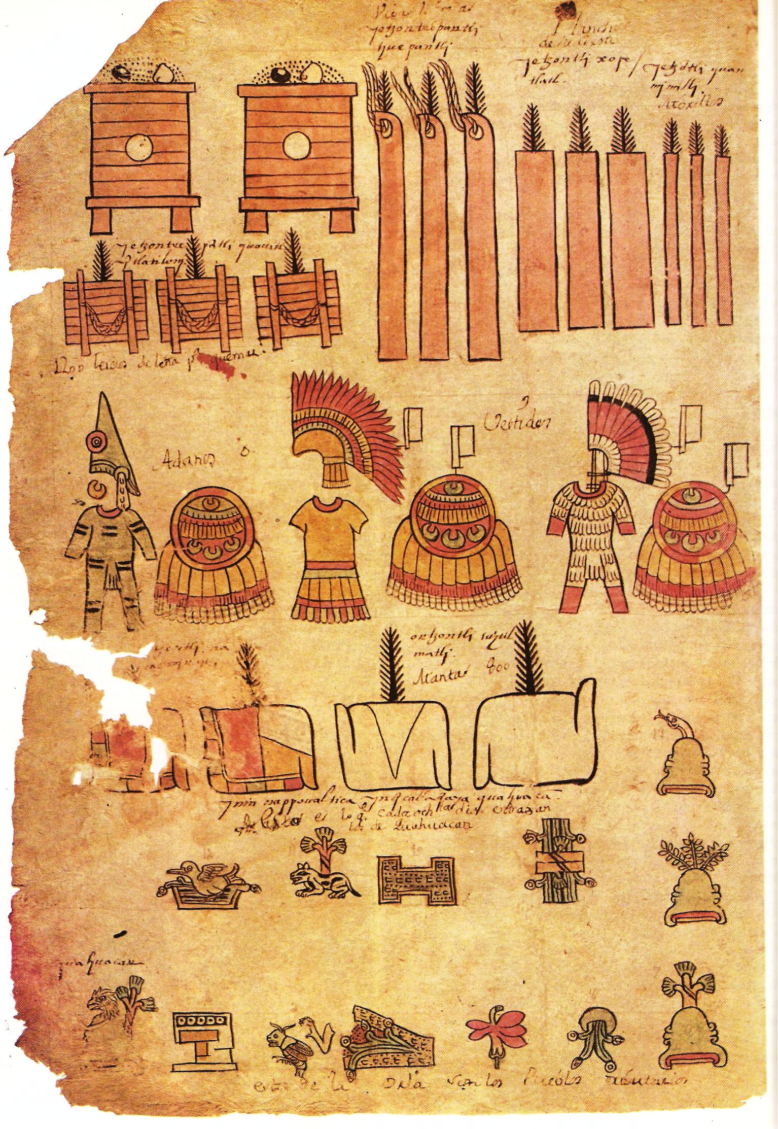 Codex Mendoza